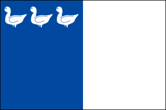 Flag of the Belgian city of Thuin